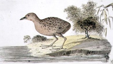 Sandwich Rail (pennula sandwichensis) (Plate 70) Painted by William Ellis while accompanying Captain James Cook on his third voyage (1776-78).